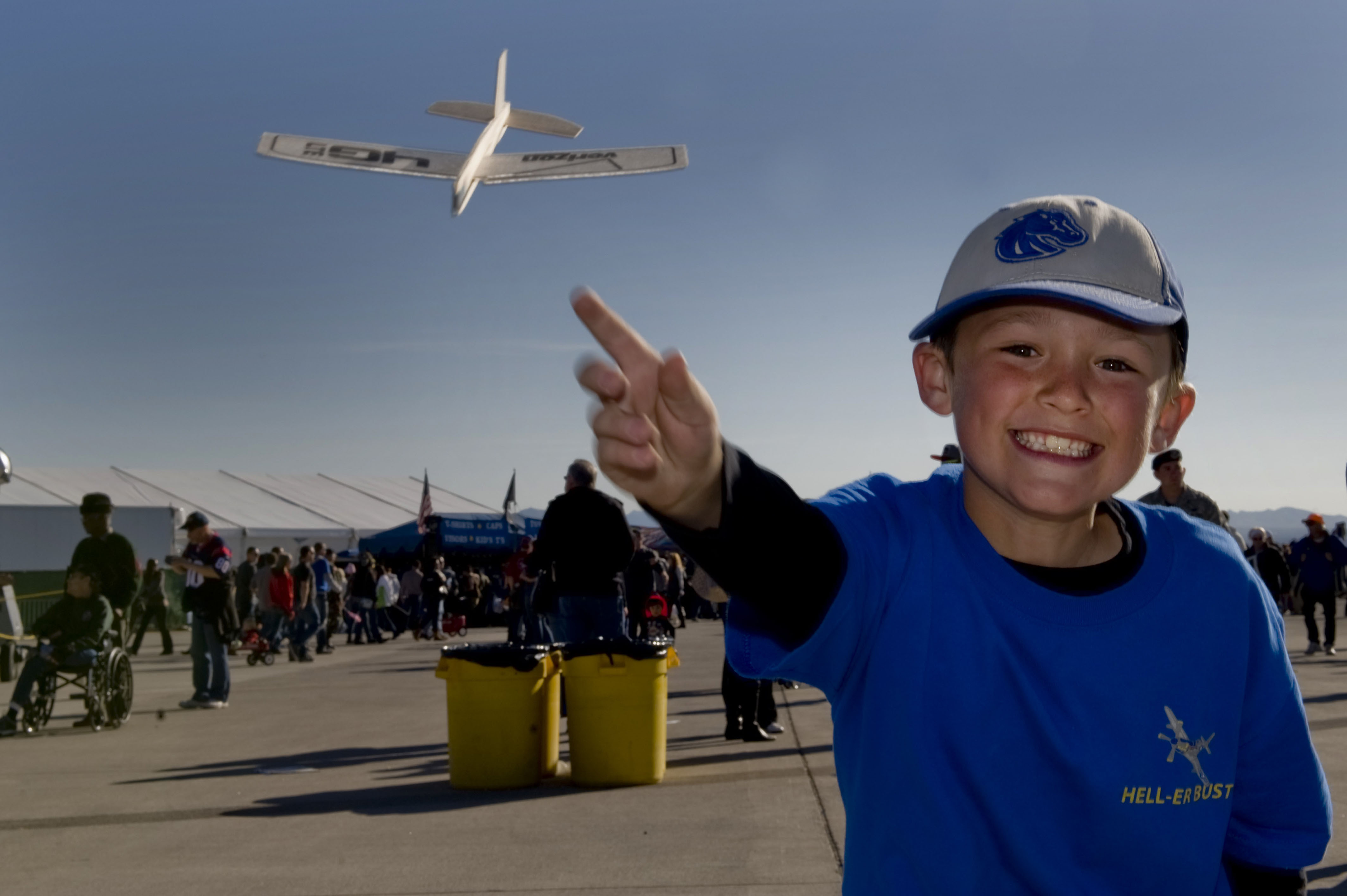 Samuel Edwards plays with a balsa wood glider during Aviation Nation Nov. 11, 2012, at Nellis Air Force Base, Nev. Food, beverages and novelties were available for purchase at several locations within the event venue. (U.S. Air Force photo by Staff Sgt. William P. Coleman) Unit: 99th Air Base Wing Public Affairs